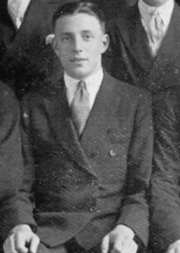 La Fontaine official class photograph